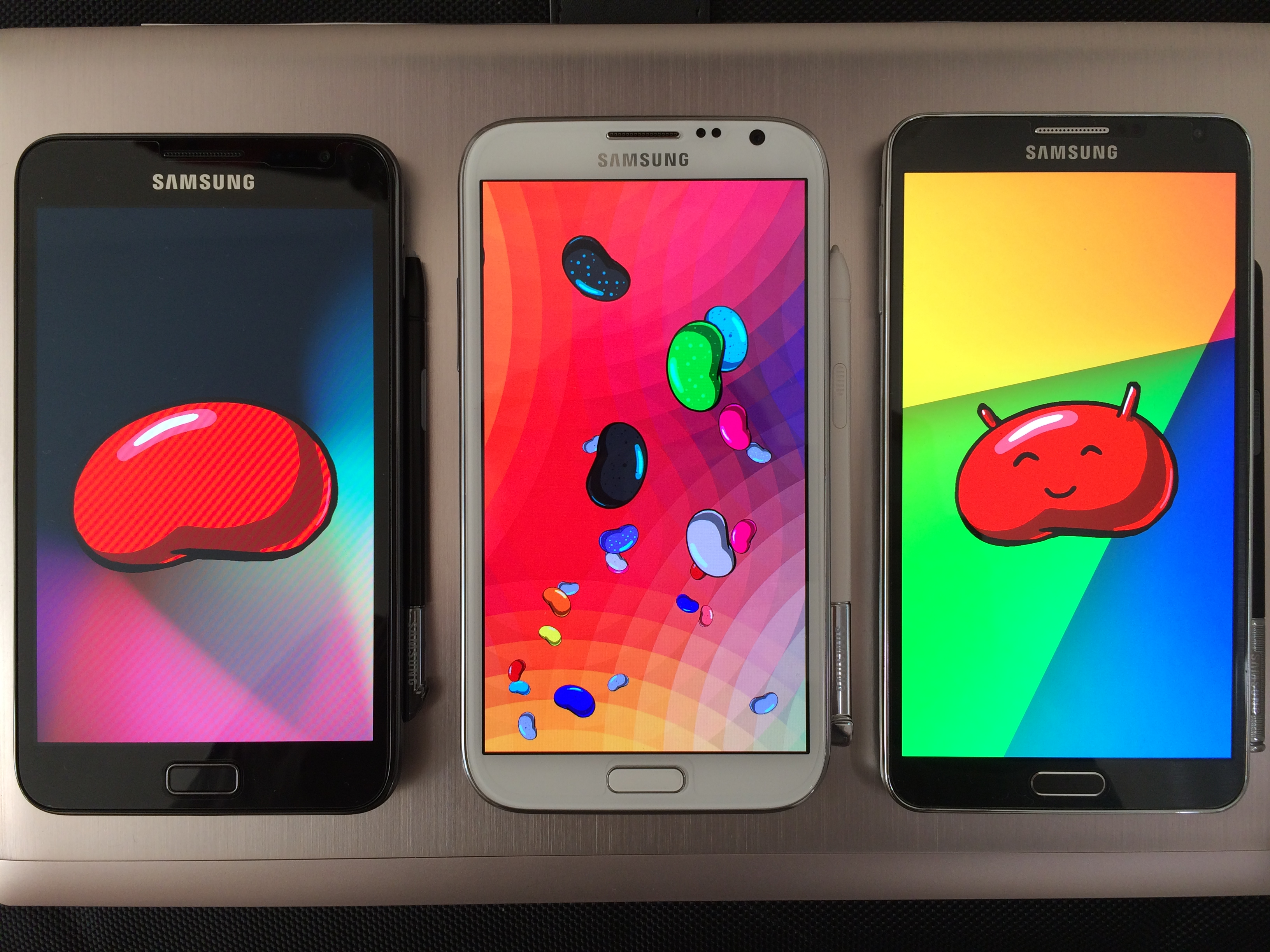 Samsung Galaxy Note series (Original, 2, 3)